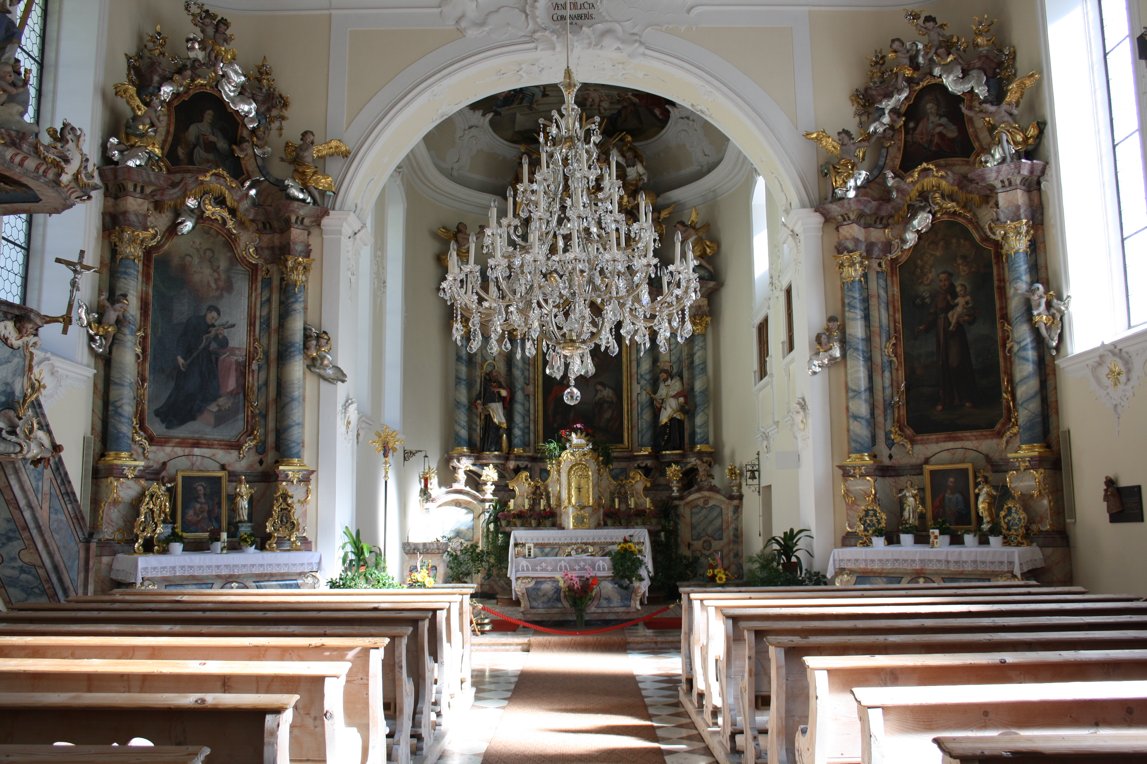 Austria, Tyrol (state), Gschnitz. Unsere liebe Frau Maria-Schnee